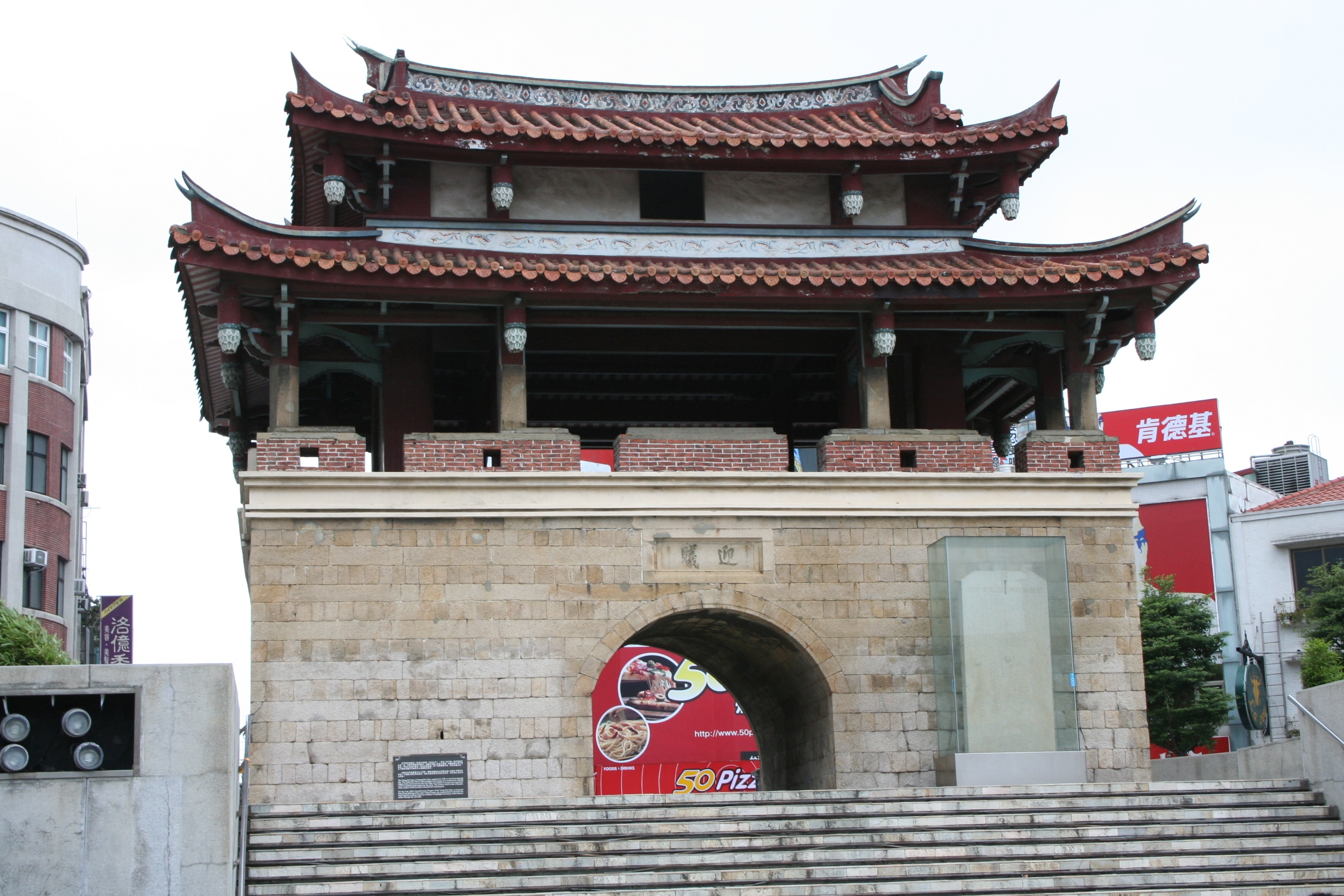 East part of East Gate in modern Hsinchu East Gate in the day, from East. Modern effort of preservation is also seen. 2005-10-29 Photo by user:Atinncnu at Wikimedia. Released to Public Domain. 新竹市東門城門